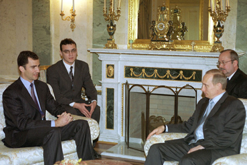 THE KREMLIN, MOSCOW. President Vladimir Putin meets Crown Prince Felipe of Spain.